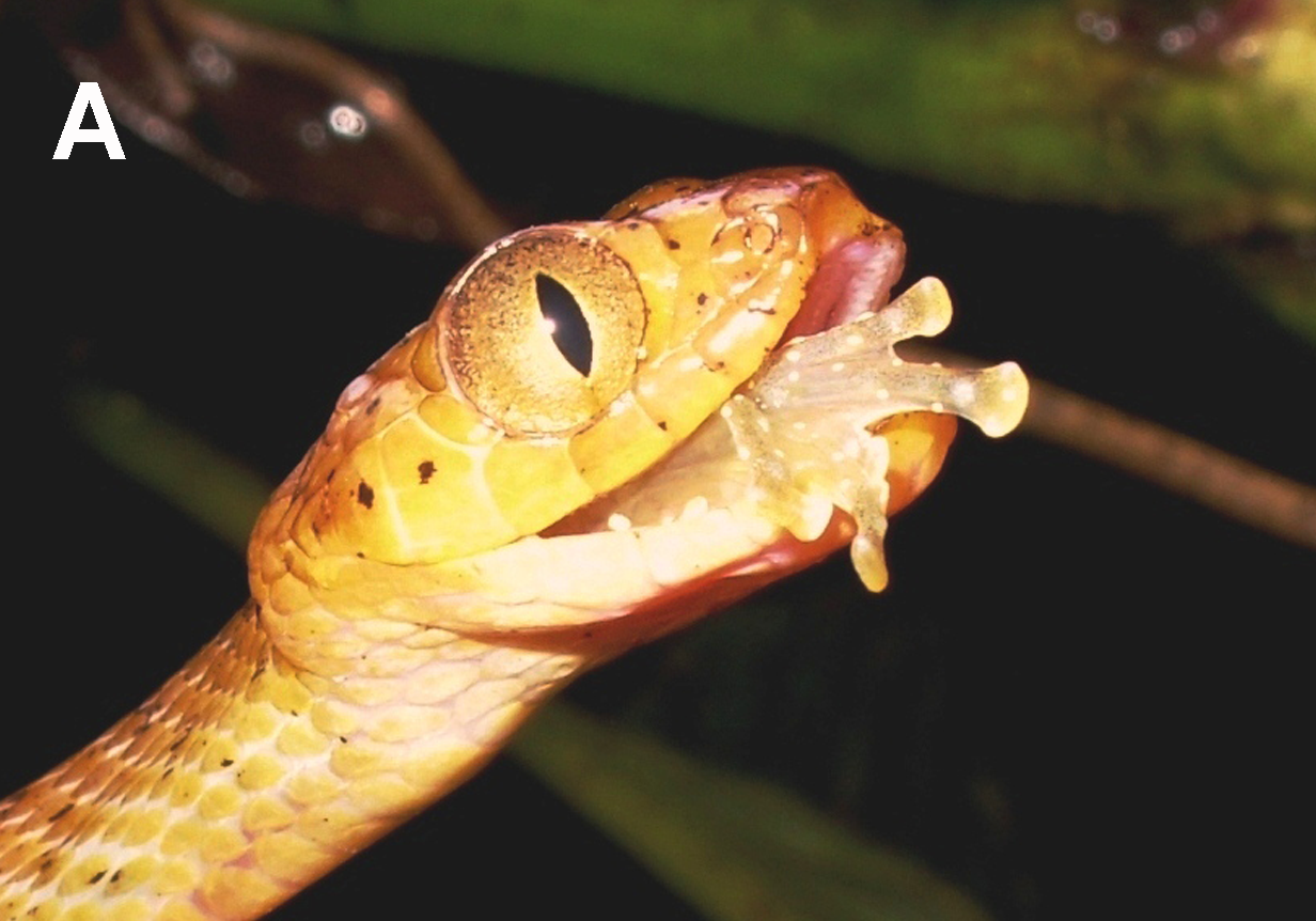 Snake Leptodeira septentrionalis eating glassfrog Cochranella mache